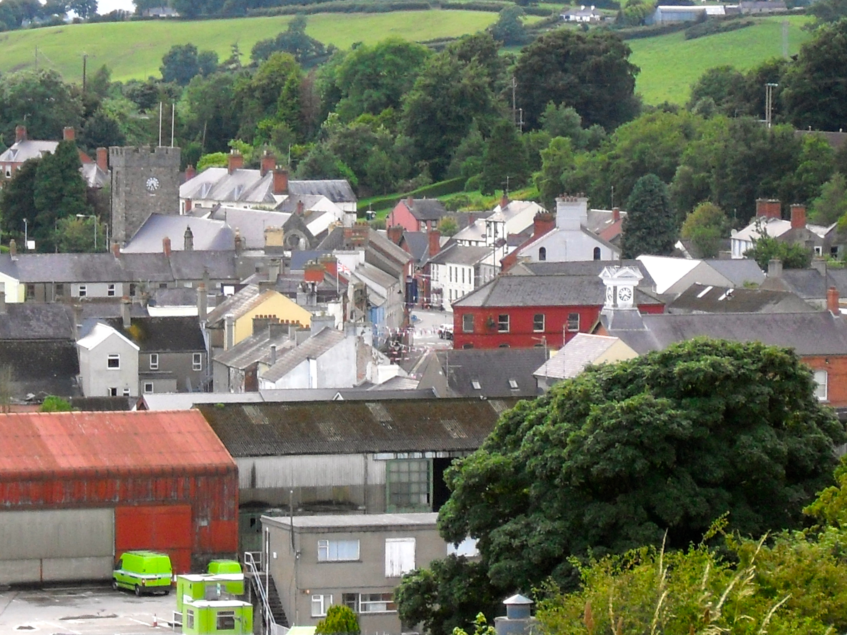 A view over Dromore town centre from Dromore Mound.